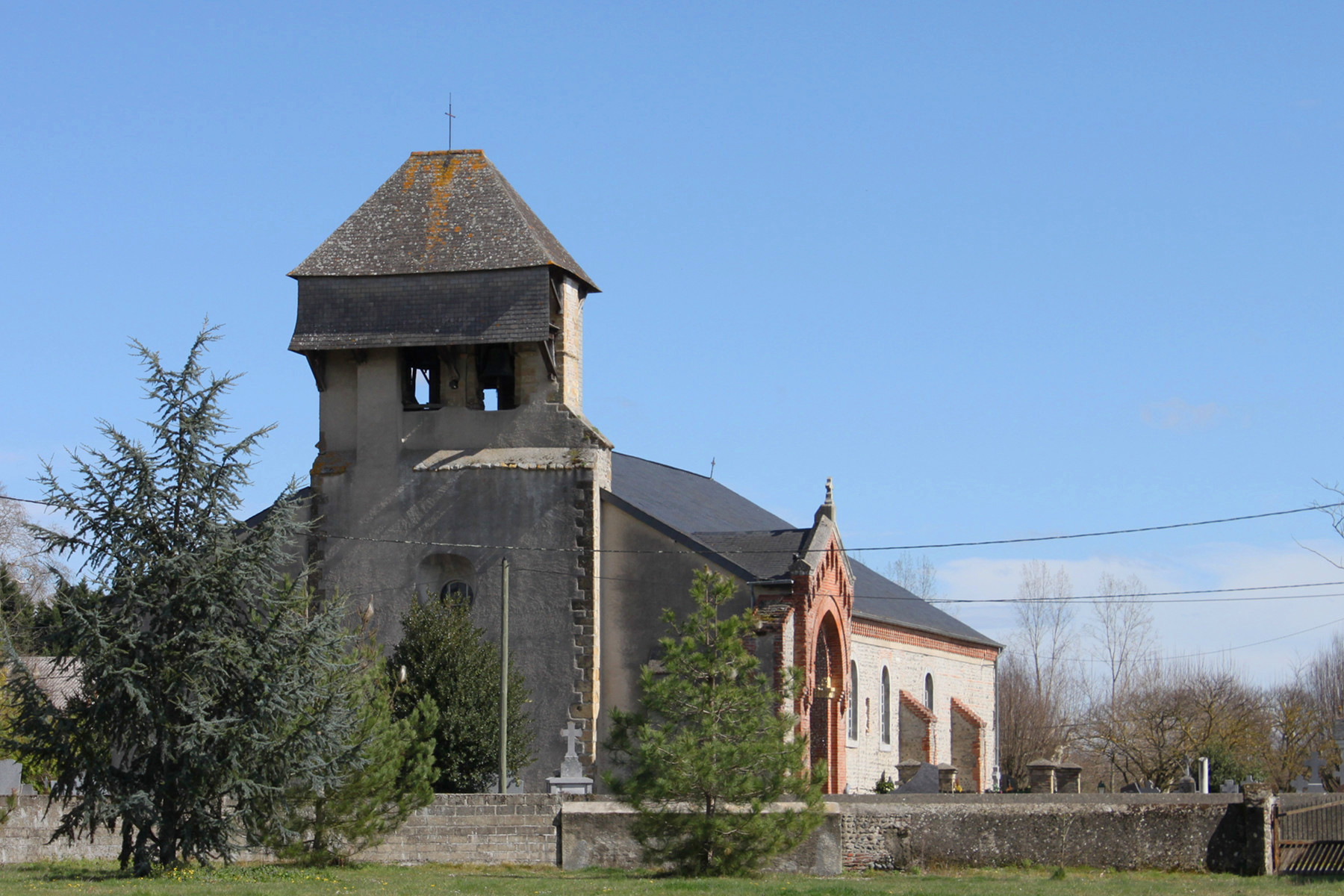 The church at Artagnan, Hautes-Pyrénées, showing the bell gable.